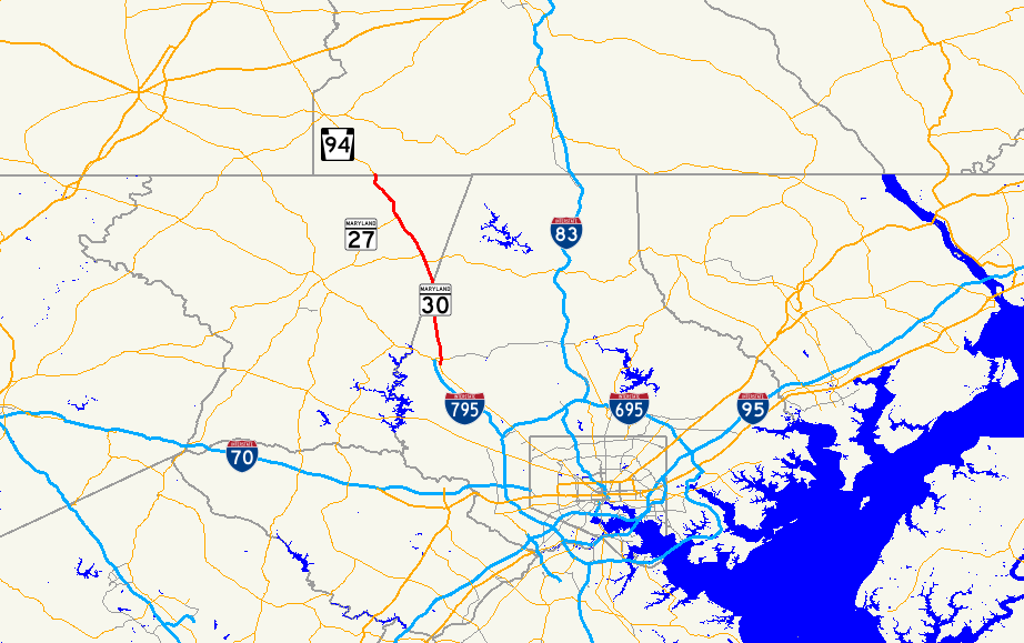 Map of Maryland Route 30